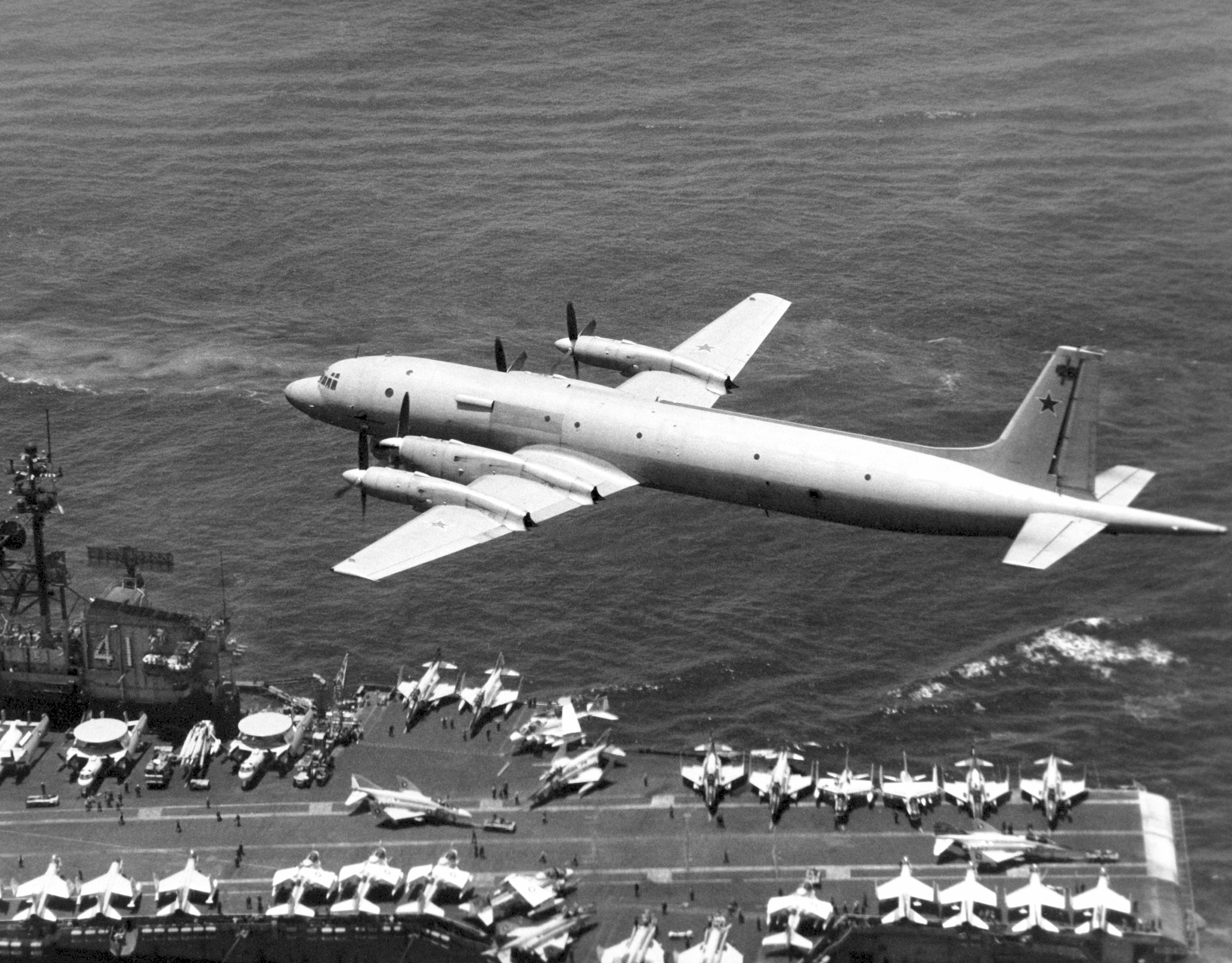 An air-to-air left rear view of a Soviet IL-38 May reconnaissance and anti-submarine warfare aircraft passing low over the flight deck of the aircraft carrier USS MIDWAY (CV 41).